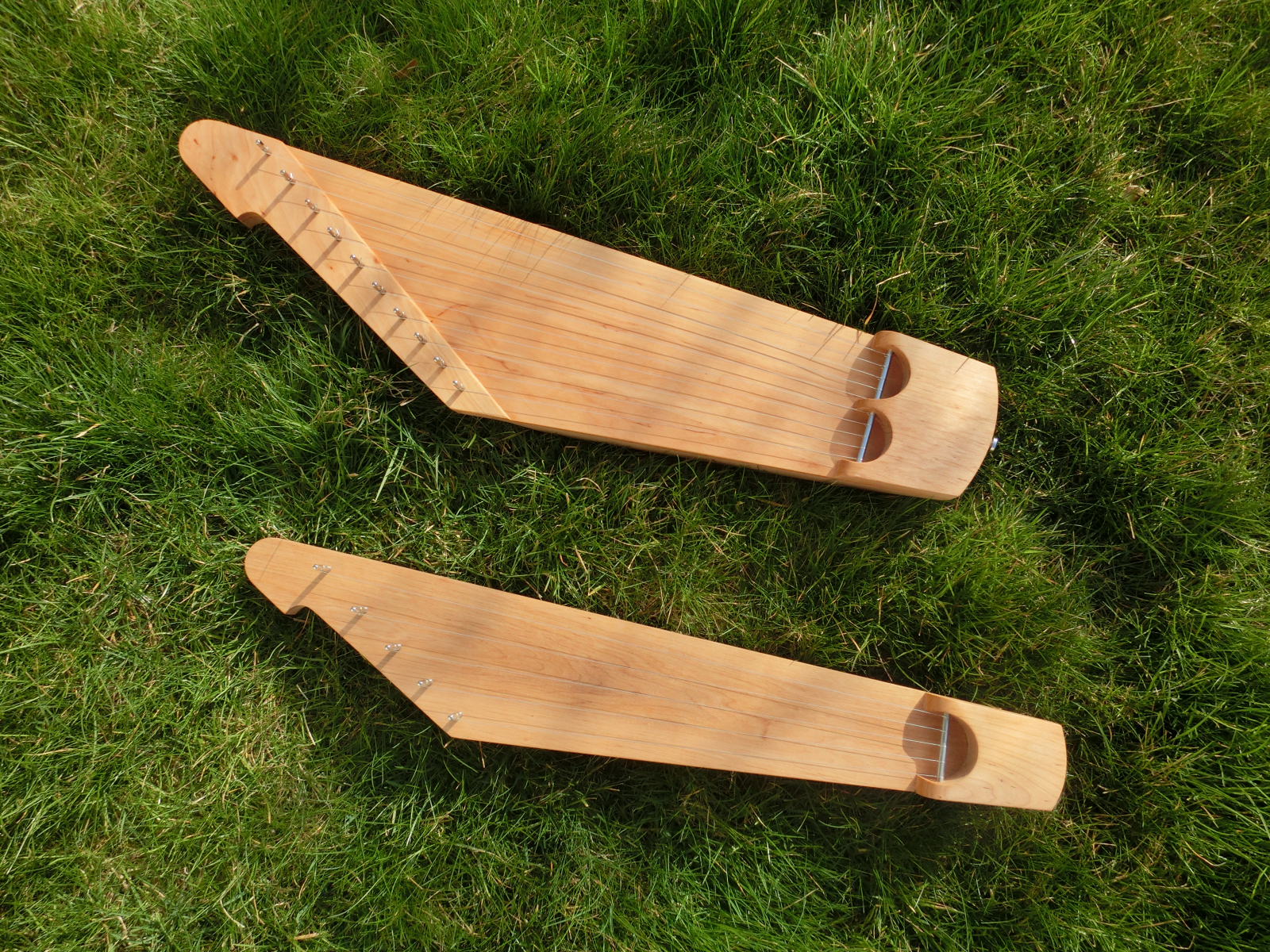 5- and 10-string kantele. Maker: Melodia Soitin, Finland.